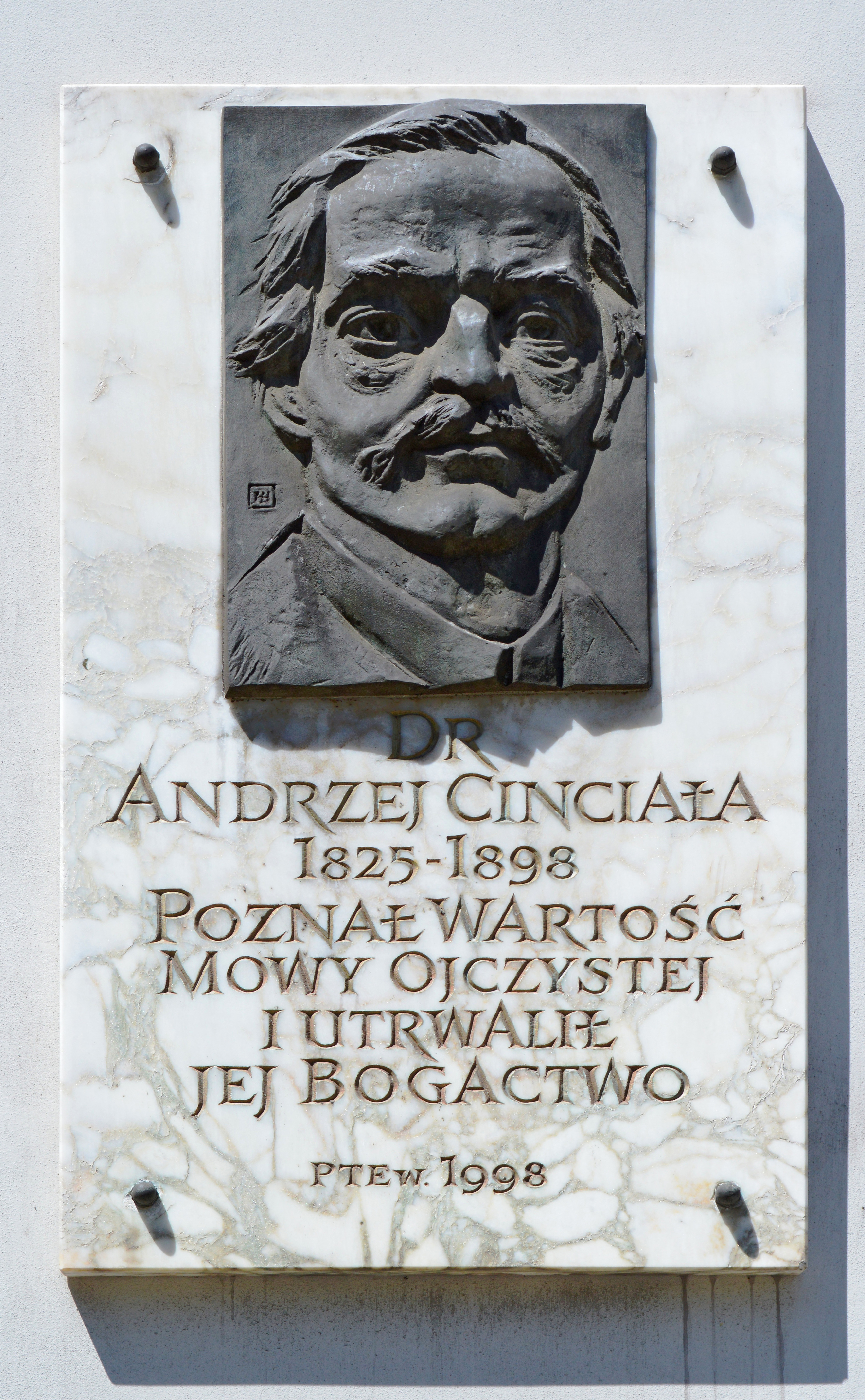 Plaque to dr Andrzej Cinciała (pl) (1825-1898) on building at Plac Kościelny (Church Square) in Cieszyn, Poland.The Scotch Mist Gallery contains many photographs of historic buildings, monuments and memorials of Poland.